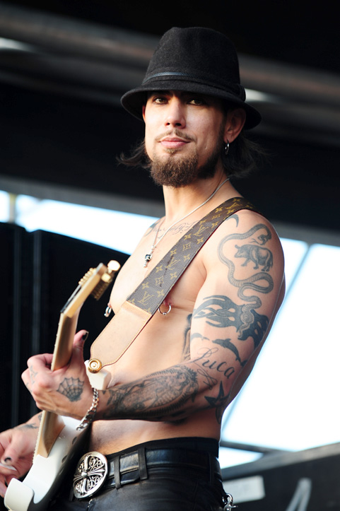 Soundwave Festival 2010